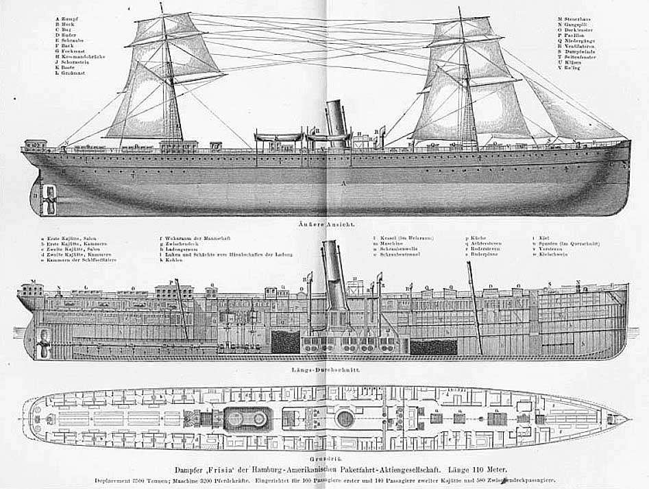 "A small conversational lexicon". This image is a diagram of the SS Frisia, a Hammonia class steam/ sail ship which carried European immigrants to North America.